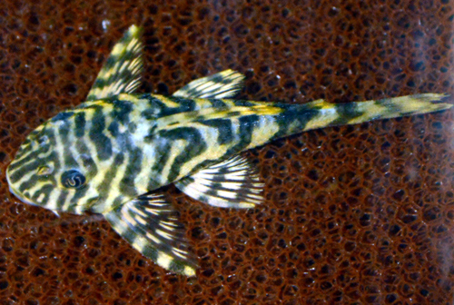 Peckoltia compta. Aquarium specimen, USA. Imported from Belem.